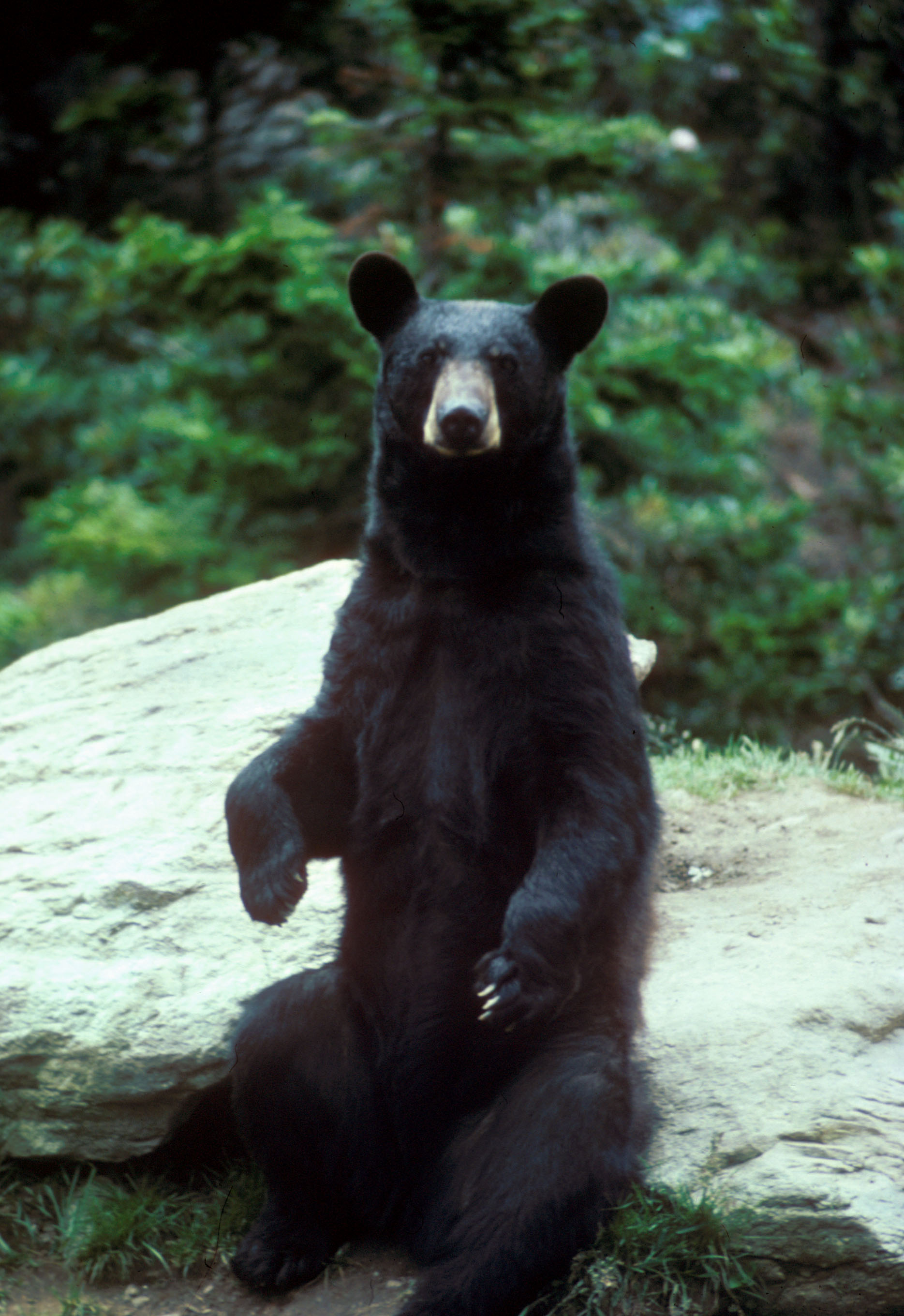 A black bear sitting